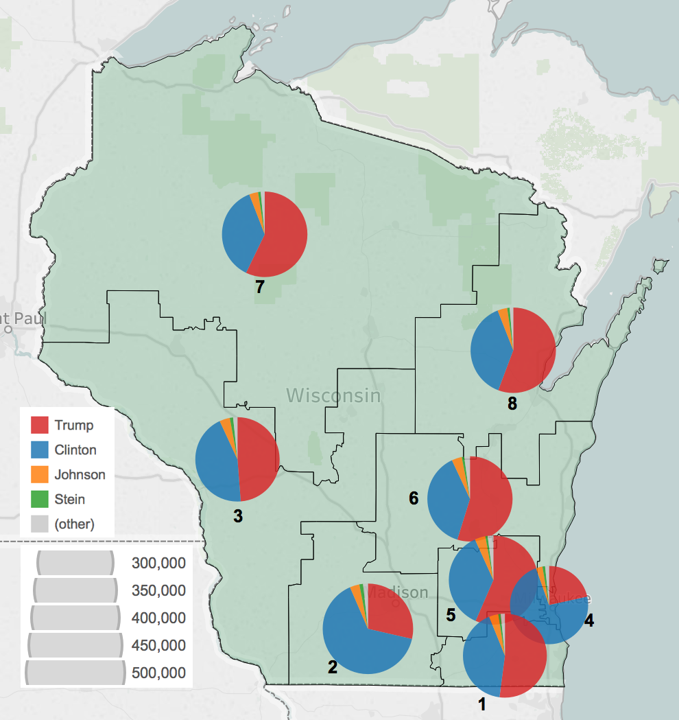 United States presidential election in Wisconsin, 2016 by congressional district. Source PresidentContest RecountResult WardByWard withDistricts.xlsx[1] (Microsoft Excel), Wisconsin Elections Commission, December 12, 2016 Congressional DistrictCandidateVotes 1Trump187,372 1Clinton150,436 1Johnson12,926 1(other)5,706 1Stein3,375 2Trump119,608 2Clinton271,507 2Johnson14,385 2(other)7,159 2Stein5,533 3Trump177,172 3Clinton160,999 3Johnson14,511 3(other)5,933 3Stein4,656 4Trump67,287 4Clinton228,226 4Johnson8,501 4(other)5,087 4Stein3,380 5Trump229,325 5Clinton148,900 5Johnson15,756 5(other)8,303 5Stein3,363 6Trump203,433 6Clinton141,917 6Johnson14,291 6(other)7,937 6Stein3,531 7Trump213,467 7Clinton137,874 7Johnson12,613 7(other)5,540 7Stein3,701 8Trump207,620 8Clinton142,677 8Johnson13,691 8(other)4,919 8Stein3,533 } Date26 February 2017SourceOwn workAuthorDennis Bratland Licensing[edit]